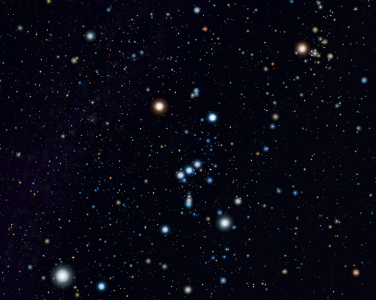 Image of Orion